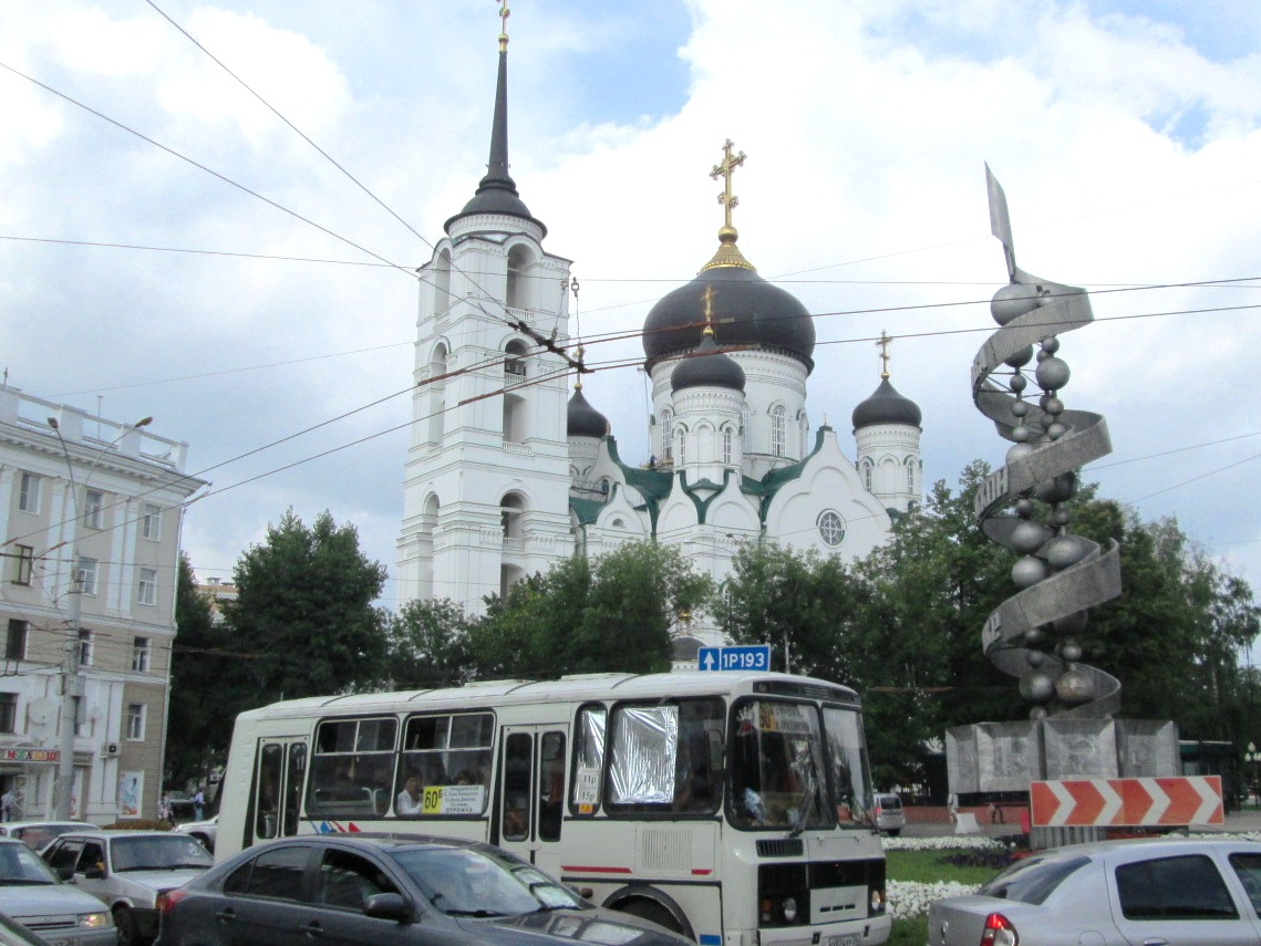 Marshrutka in centre of Voronezh, Russia